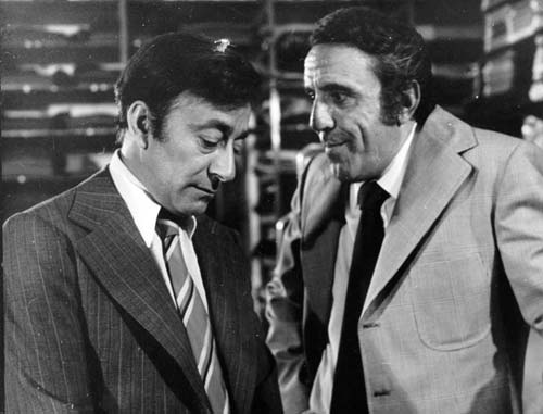 Alberto Olmedo y Adolfo García Grau en el film "Basta de mujeres" de 1977